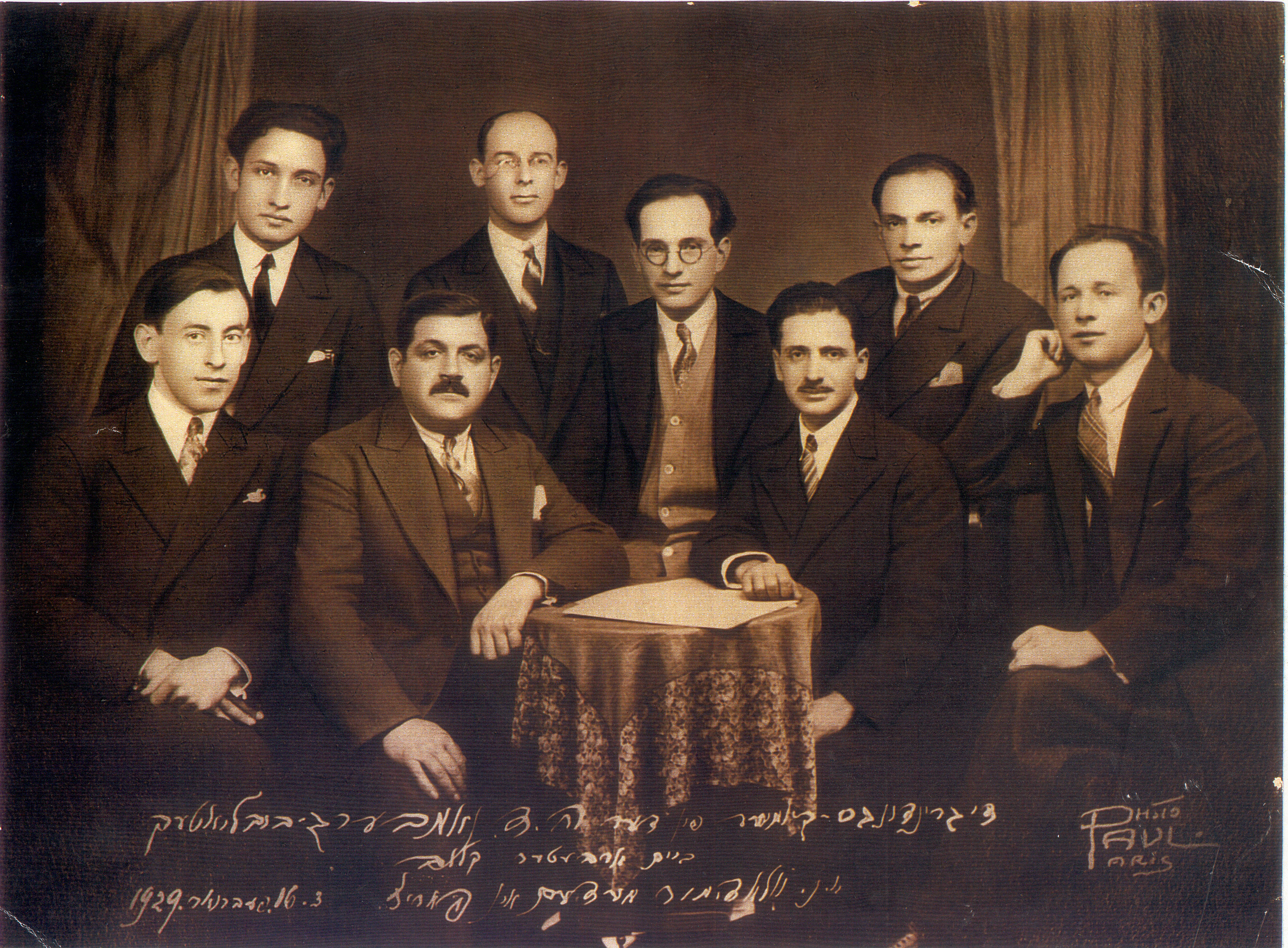 The "founding fathers" of the Medem library in Pairs, 1929